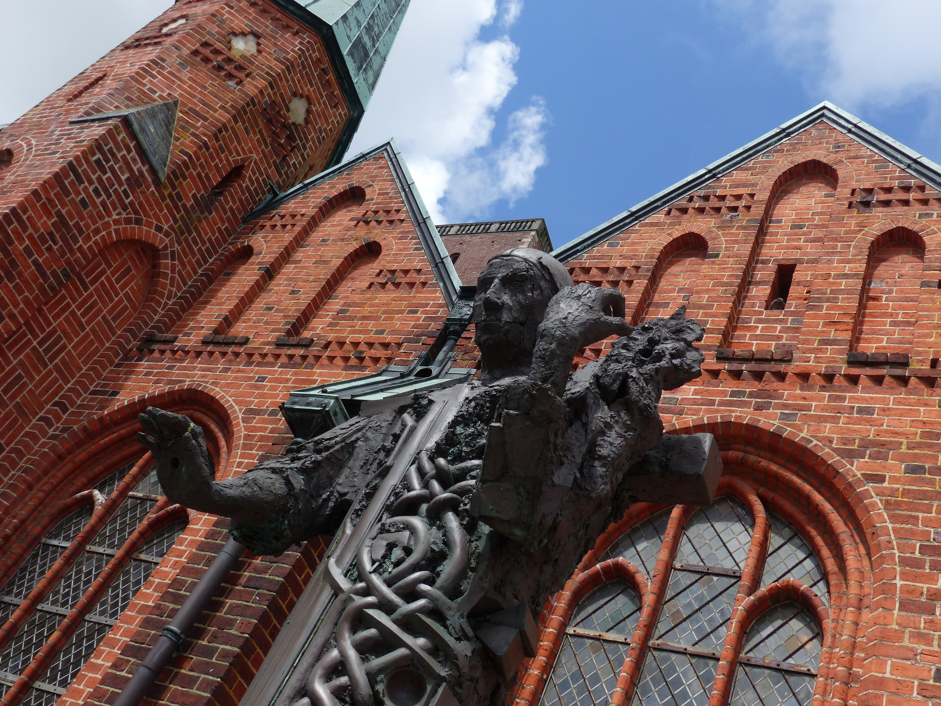 Statue of bishop Ansgar in front of the cathedral of Ribe.